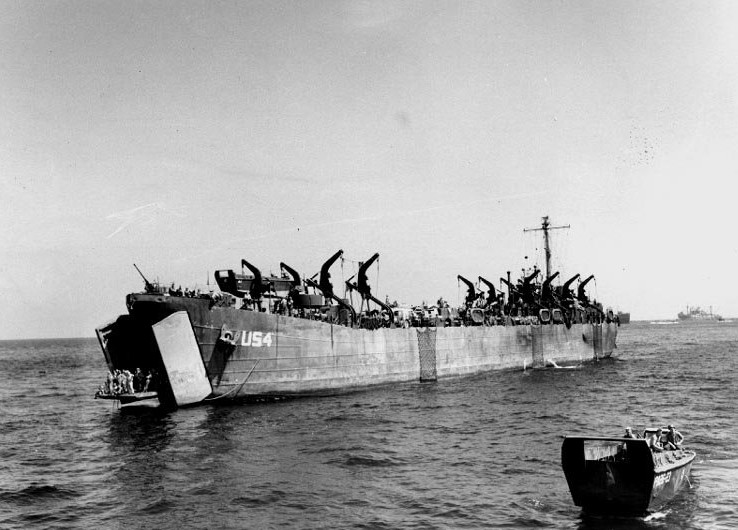 Photo #: 80-G-256424 Southern France Invasion, August 1944 USS LST-4 approaches the shore at Yellow Beach, Pampelonne Bay, France, 16 August 1944. A USS Samuel Chase (APA-26) LCVP is in the right foreground. Official U.S. Navy Photograph, now in the collections of the National Archives.